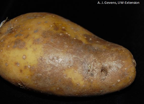 Blemishes on a tuber caused by silver scurf/Manchas en la papa causadas por 'silver scurf'.